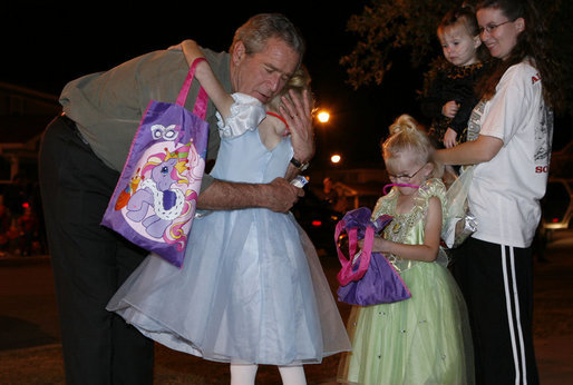 President George W. Bush hugs a trick-or-treater Tuesday, Oct. 31, 2006, during a Halloween visit to a housing development on base at Robins Air Force Base, Ga. White House photo by Paul Morse